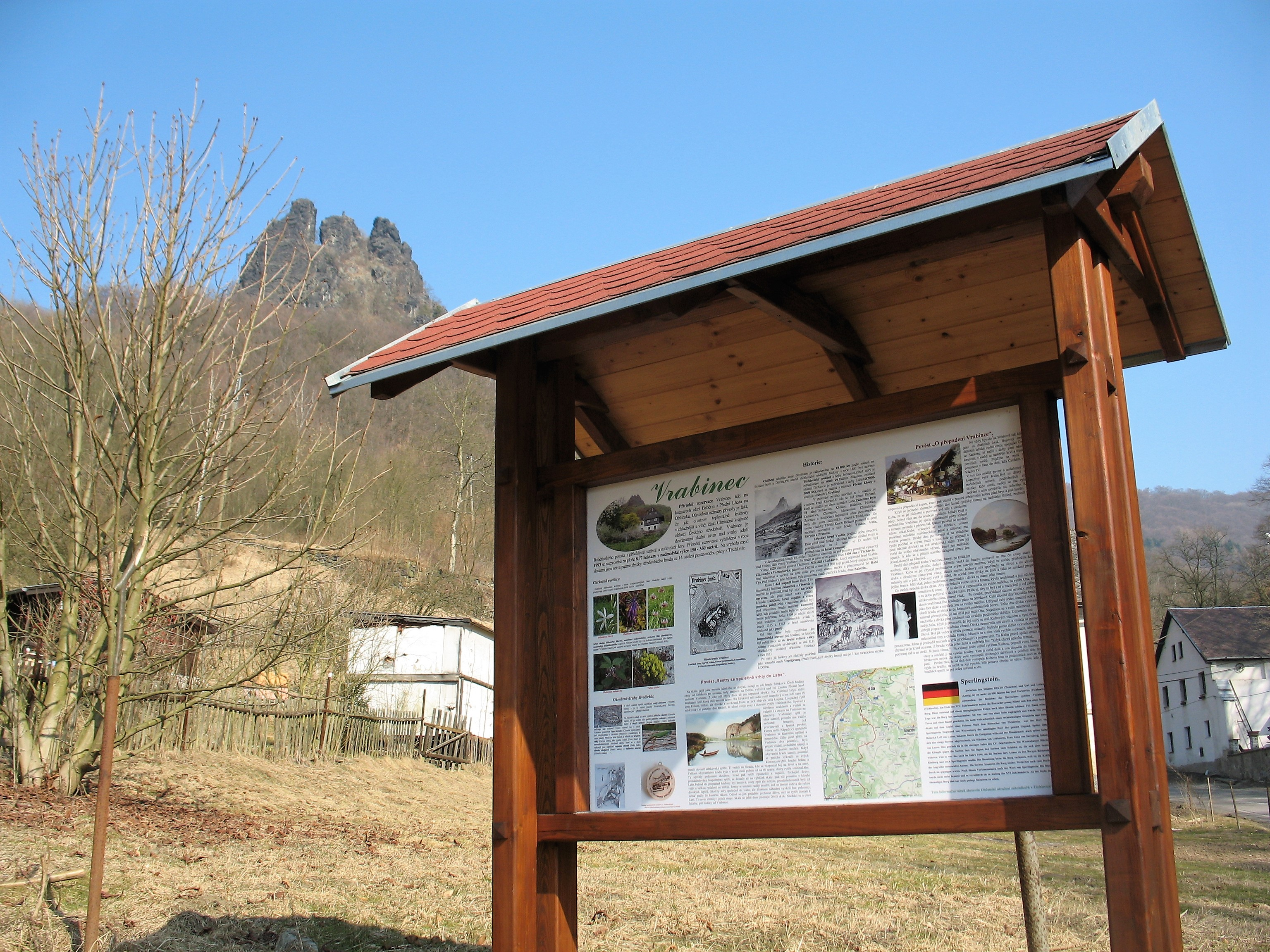 Vrabinec Hill and nature reserve, Děčín District, Northern Bohemia